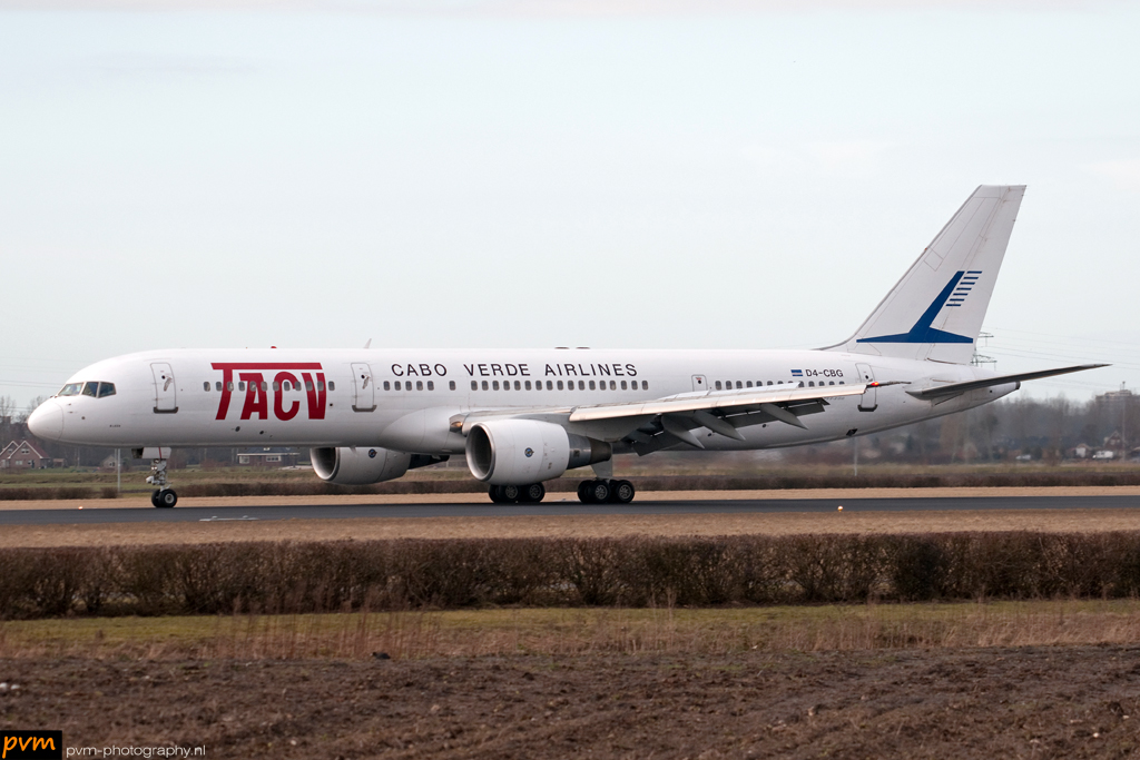 Two 757's in the fleet, finally I see their second one. Boeing 757-2Q8 Amsterdam schiphol [AMS / EHAM] 27-02-2010